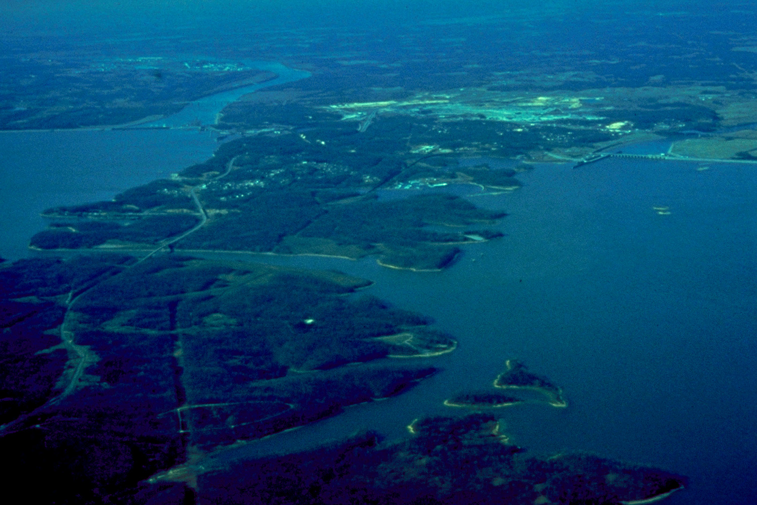 Aerial view of Kentucky Lake and Lake Barkley in Kentucky, USA. Kentucky Lake is on the left and Lake Barkley is on the right. Kentucky Lake was created by a dam on the Tennessee River. Kentucky Dam and Lock can be seen at the upper left in the photo. Barkley Lake was created by a dam on the Cumberland River. Barkley Dam and lock are visible at the upper right in the photo. At center-left in the picture can be seen a one-mile canal connecting the two lakes. The small town of Grand Rivers, Kentucky lies between the two dams. Between the two lakes lies the Land Between the Lakes National Recreaton Area.